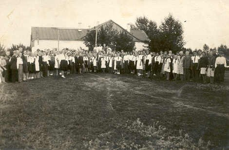 Школа